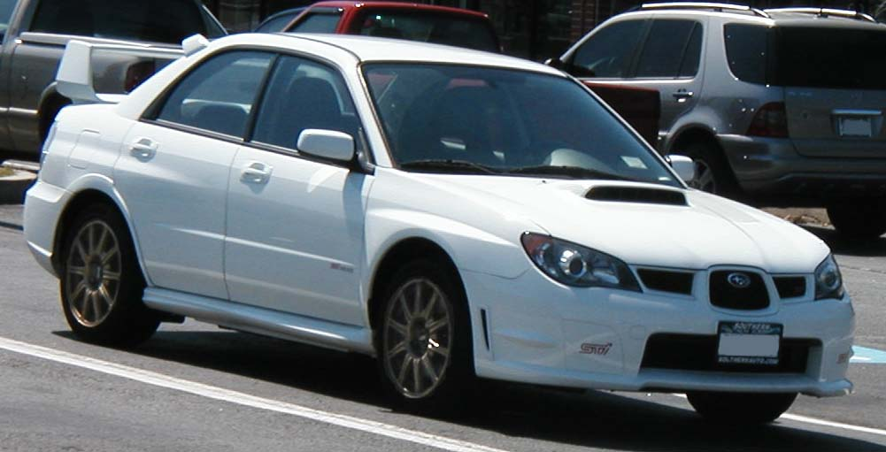 2006 Subaru Impreza WRX STI photographed in USA.